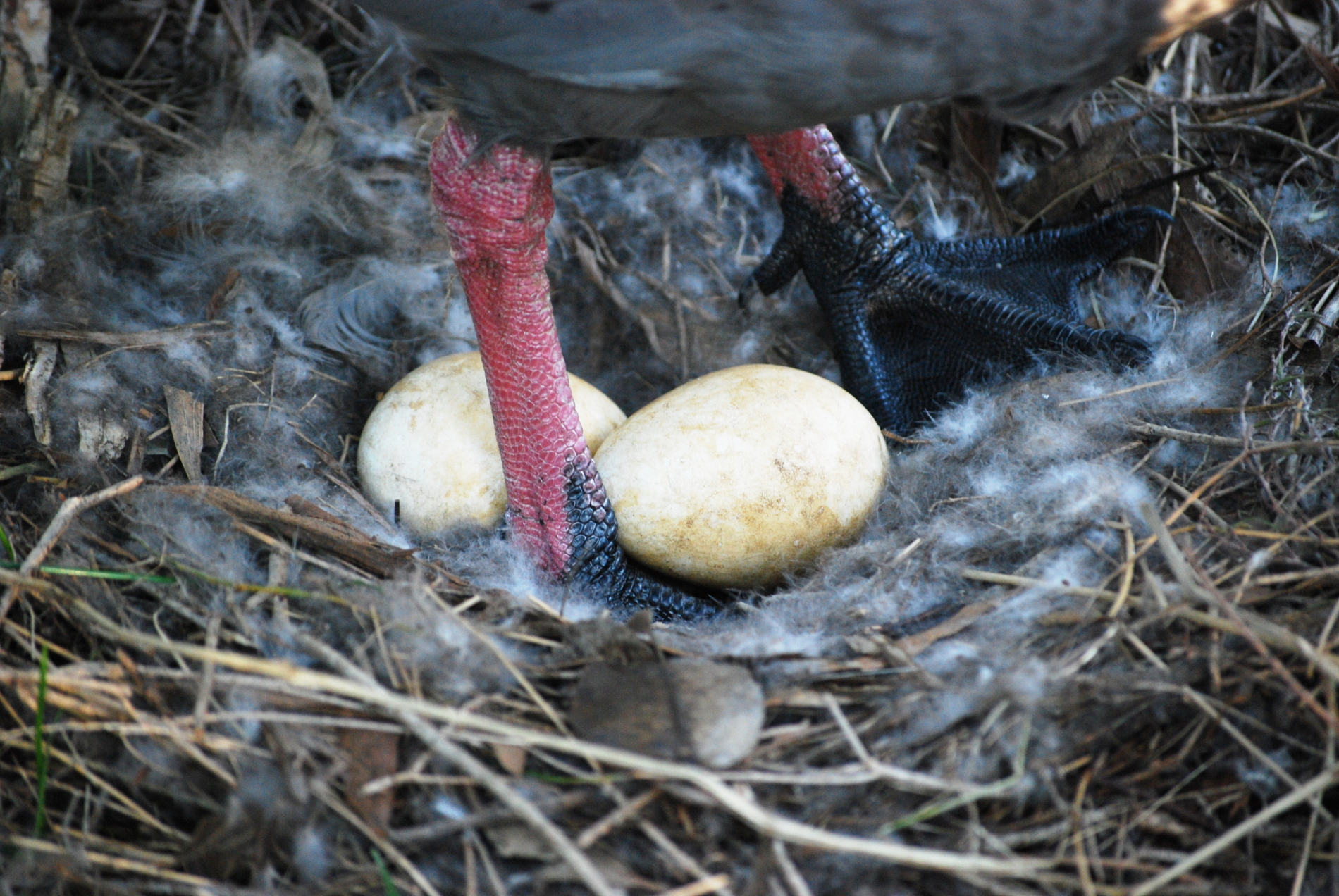 A Cape Barren Goose (Cereopsis novaehollandiae) re-seating itself on its nest after feeding. On the side of a path at Cleland wildlife park, South Australia